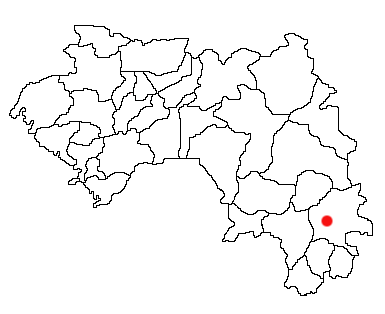 Beyla, Guinea Location Map; created with the GIMP. Made by User:Acntx.